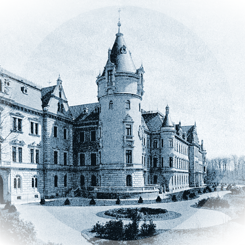 Partial View of The Castle of the Thurn and Taxis in Regensburg. The Tower is used as the model of the tower appeared in the Japanese Manga Work "The Window of Orpheus" by Riyoko Ikeda